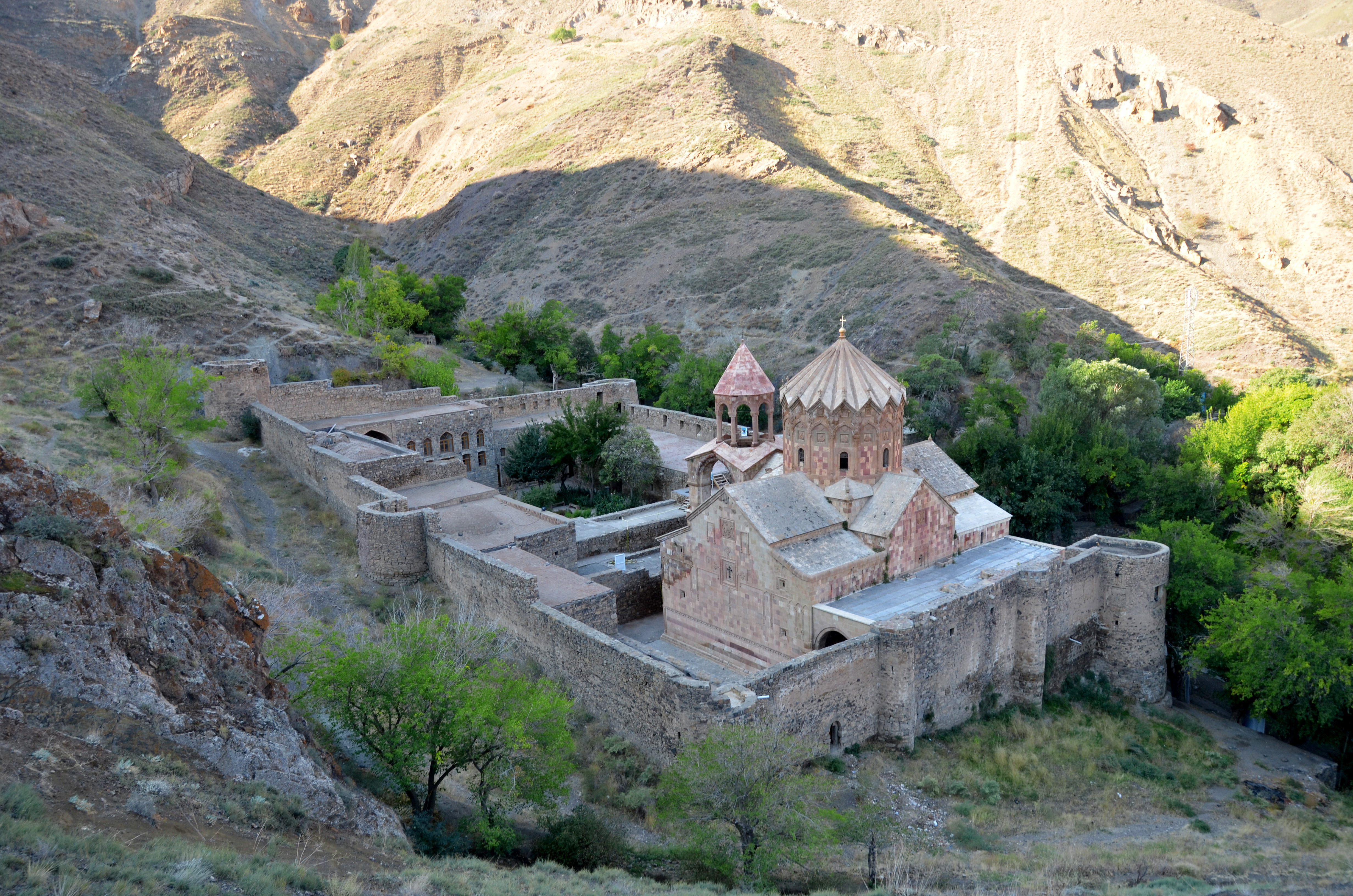 Iran - Aras - St. Stepanos Monastry